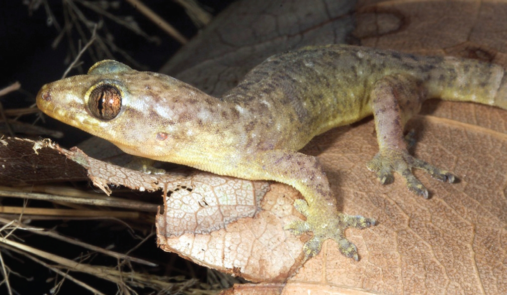 Gehyra cf. mutilata. Male (USNM [CMD 459], SVL 50 mm, TL 102 mm) from Loré 1 village, Lautém District.